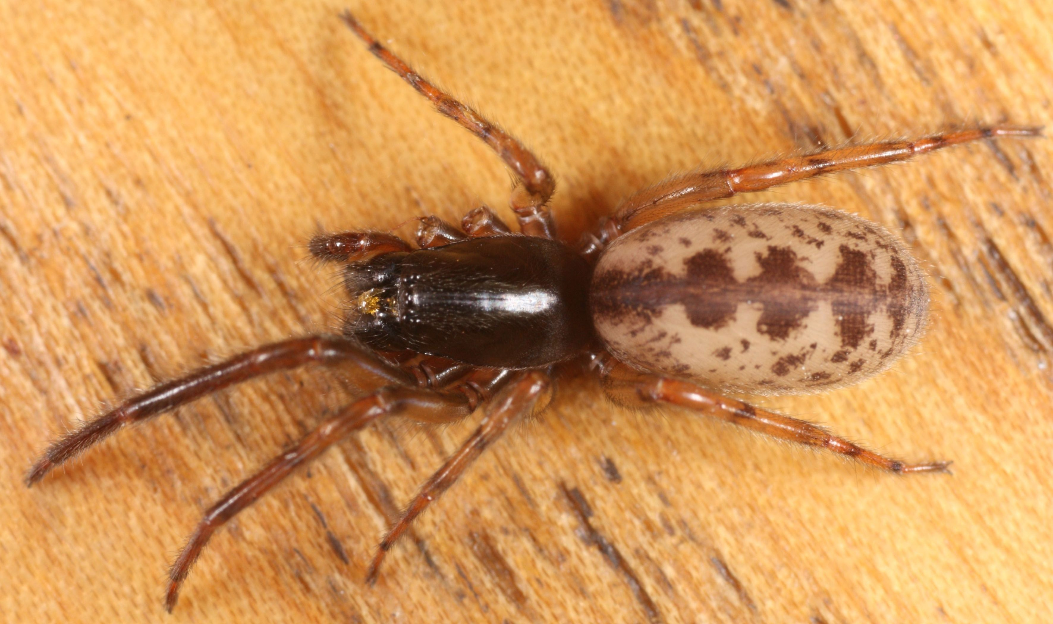 Female Segestria senoculata